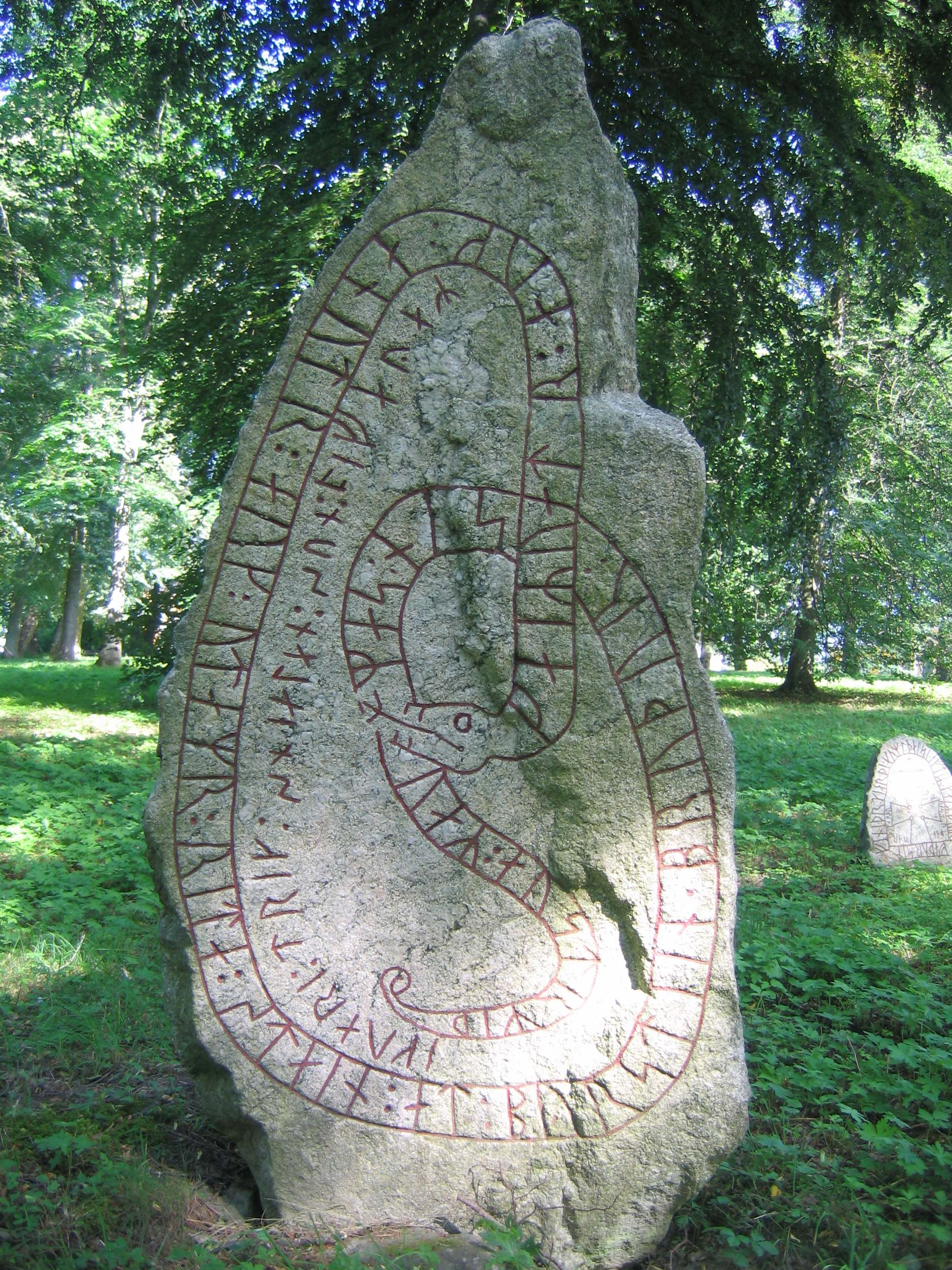 Runestone Sö 320 in Årdala parish, Flen, Södermanland, Sweden.